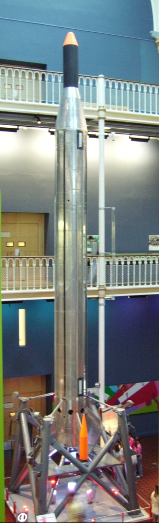 Digital photograph of a Black Knight rocket taken by myself, Veedar, during a visit to an Edinburgh museum in 2006.